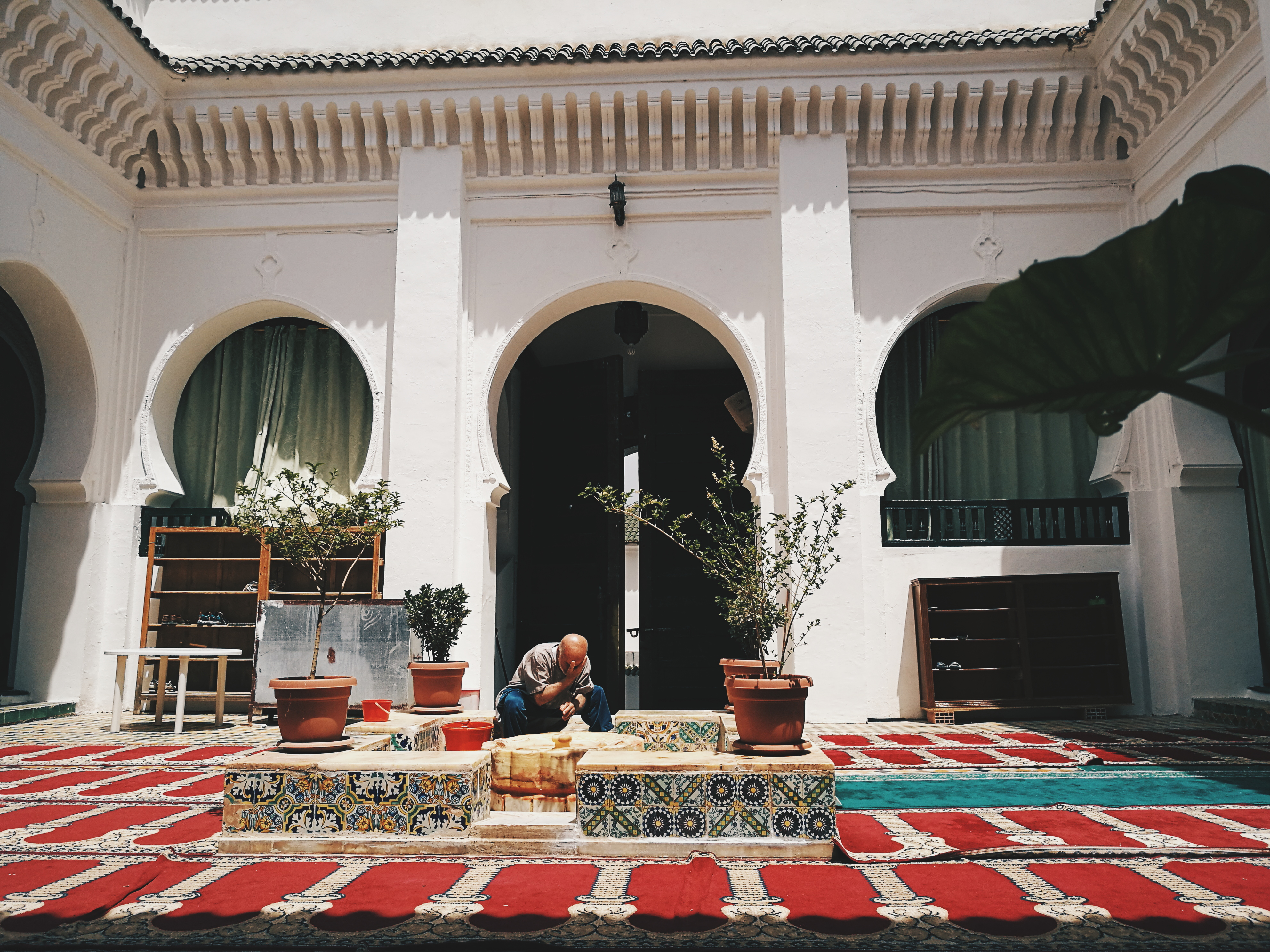 Sidi Boumediene Mosque, Tlemcen, Algeria